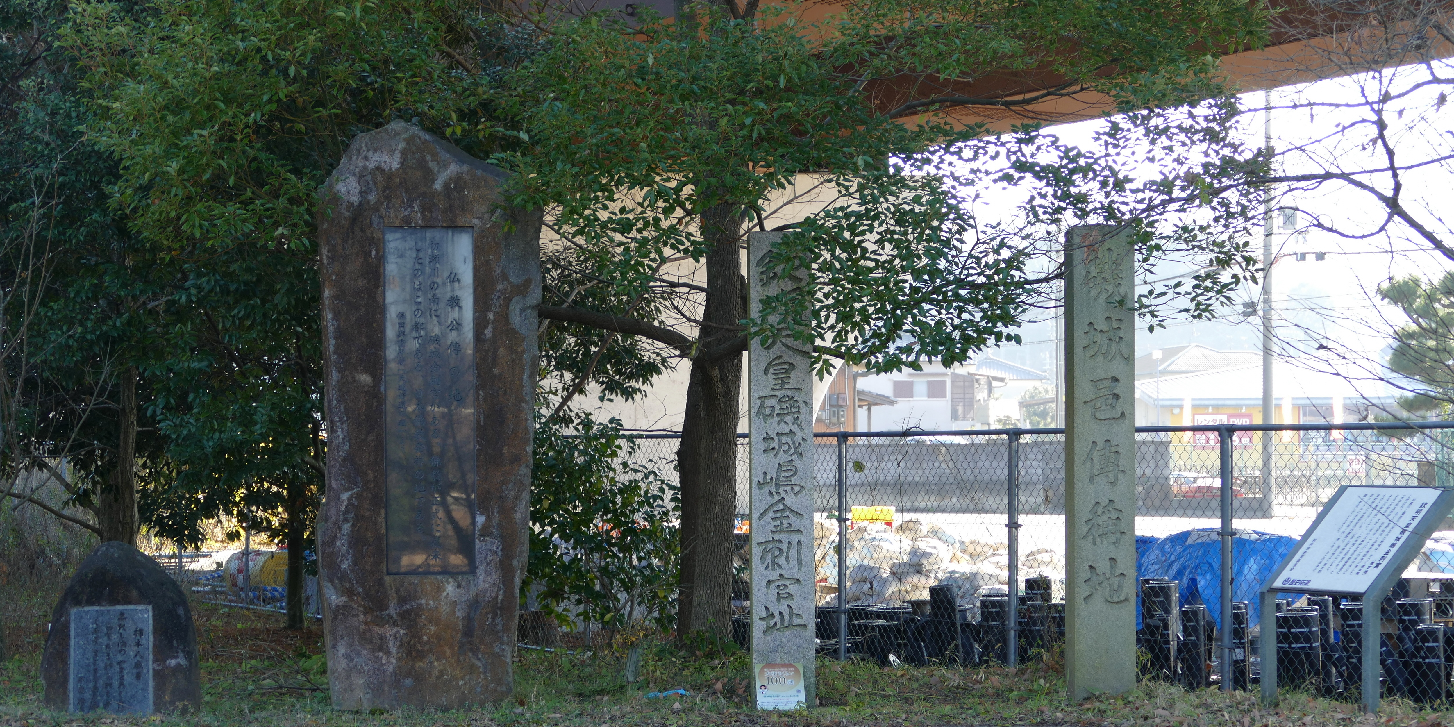 Shikishima-Kanasashi Palace of Emperor Kinmei・Steles of Official introduction of Buddhism,Nara prefecture,Japan